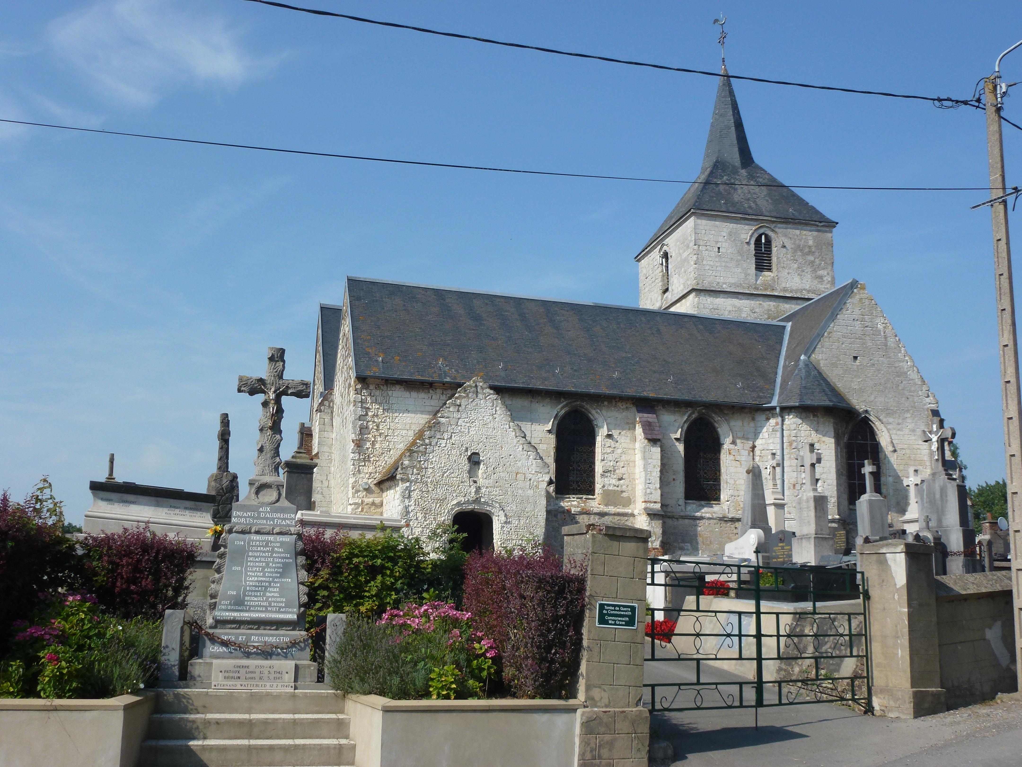 Audrehem (Pas-de-Calais) église